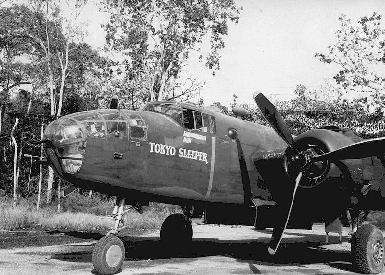 B-25C "Tokyo Sleeper" of the 38th Bombardment Group, World War II